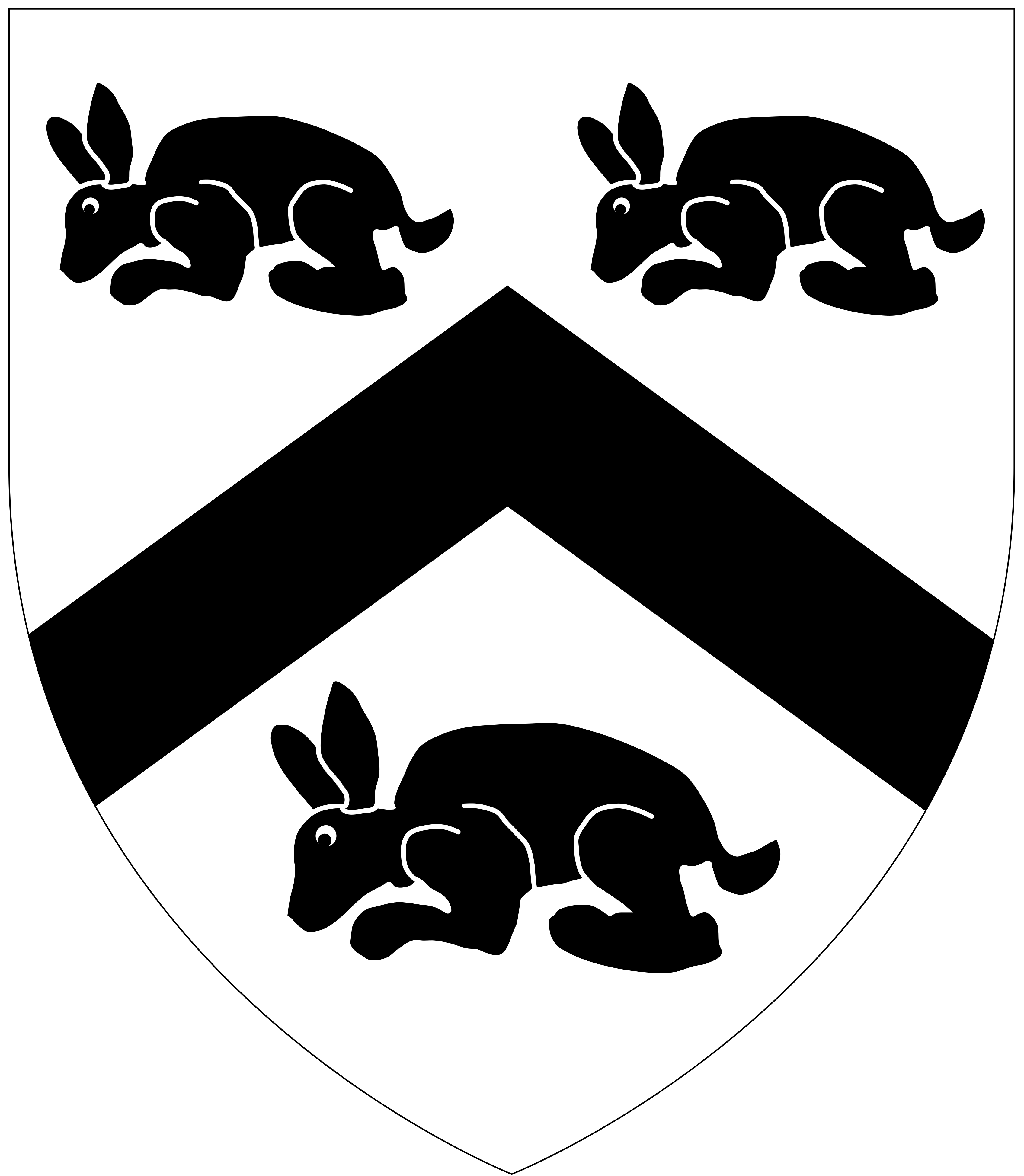 Arms of Strode: Argent, a chevron between three conies courant sable. Cony traced from photograph of an escutcheon on the mural monument of Sir William Strode (d.1637) of Newnham, north wall of north aisle, St Mary's Church, Plympton